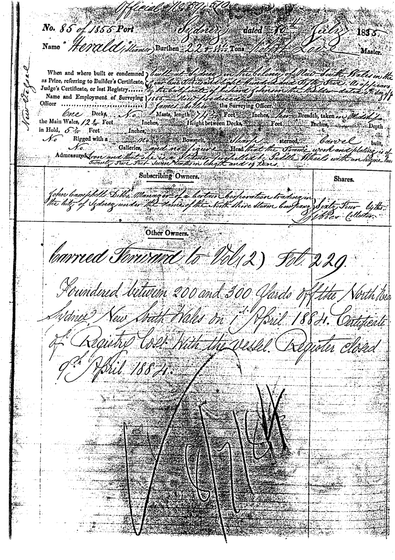 Paddle Steamer 1855 - 1884 Herald Sydney Ship Registration